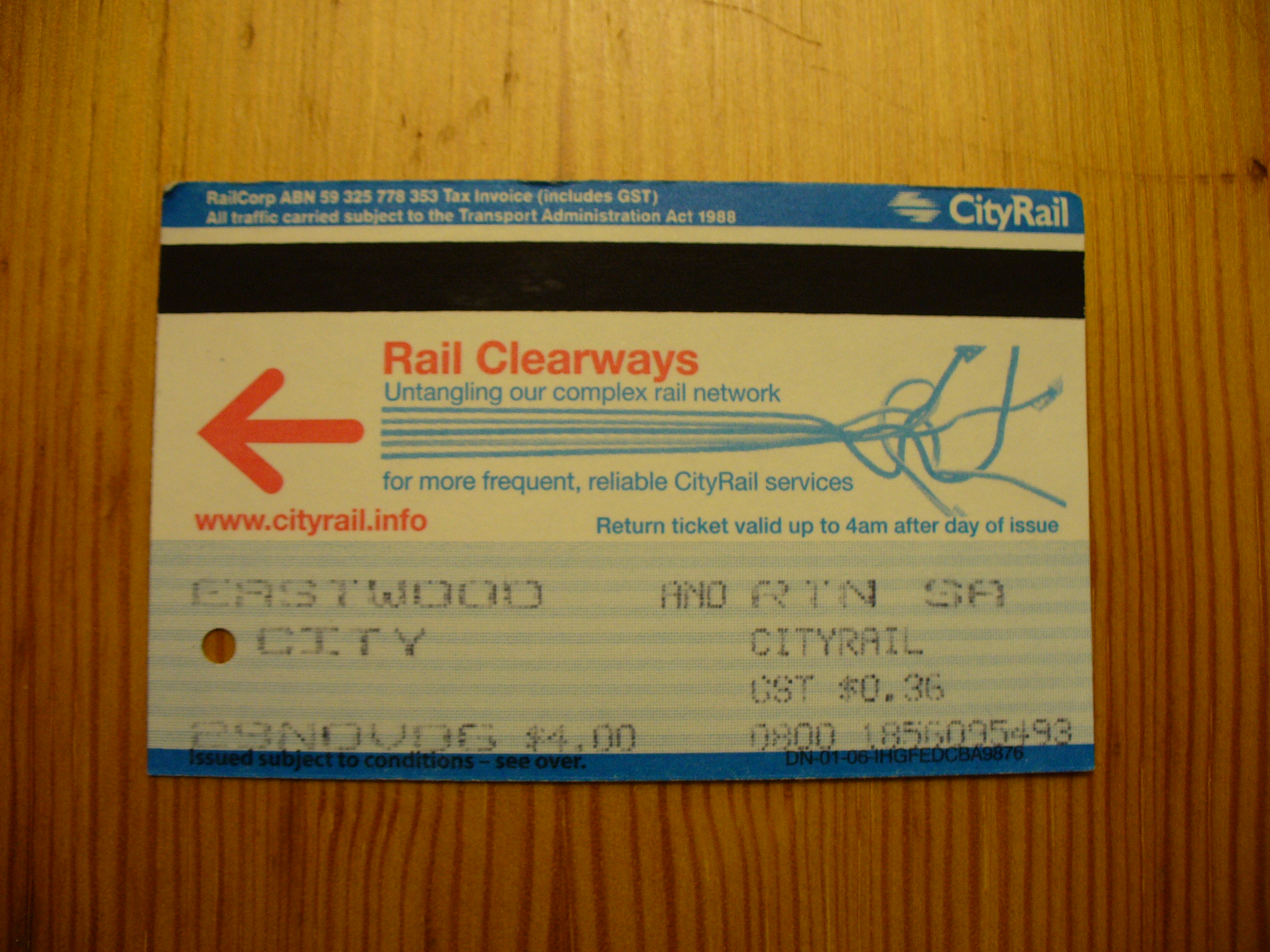 An example of a CityRail ticket, taken on a wooden desk